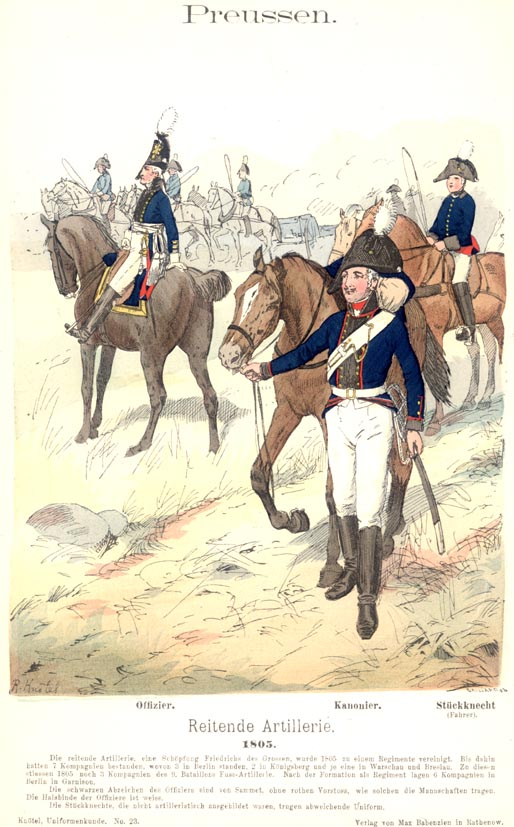 Preußen. Reitende Artillerie. 1805